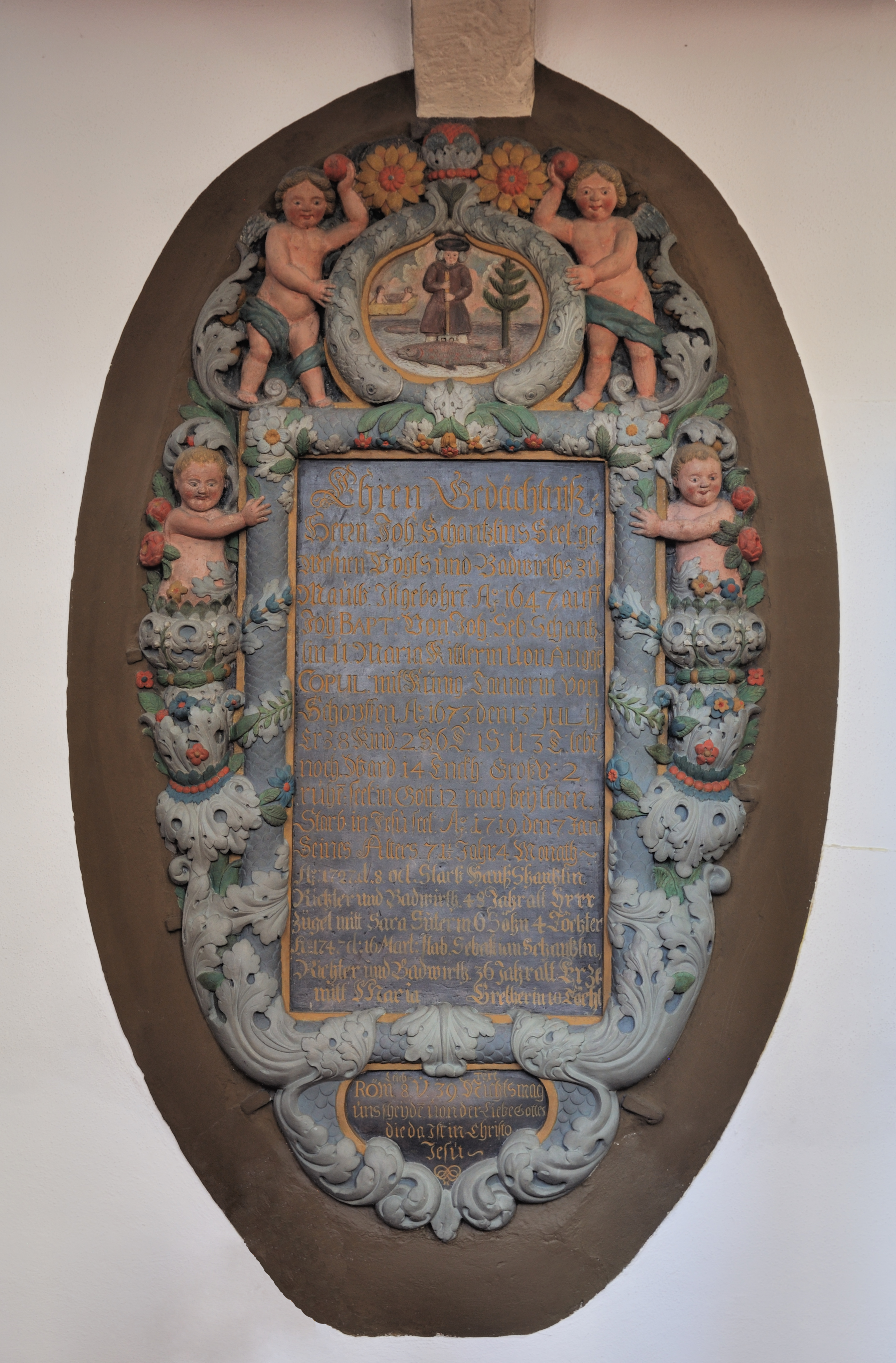 Maulburg: Protestant Church